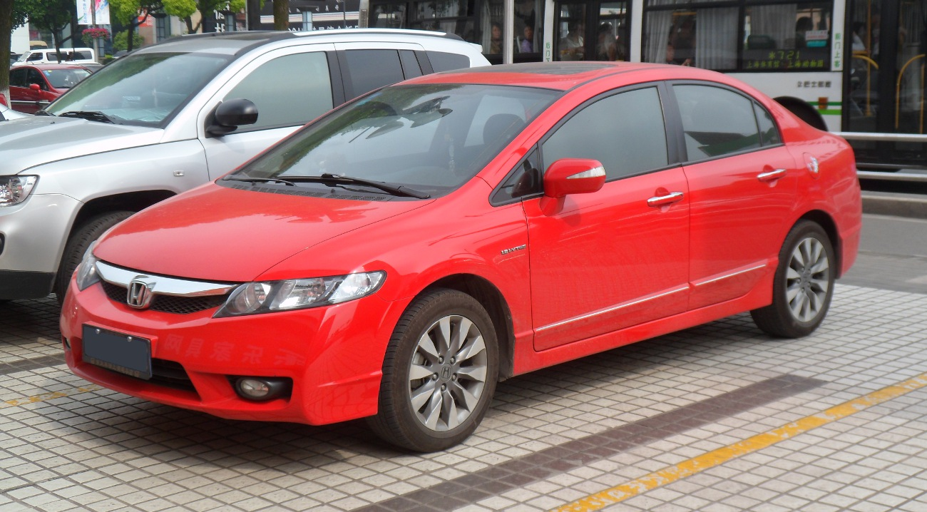 Honda Civic VIII photographed in Shanghai, China.